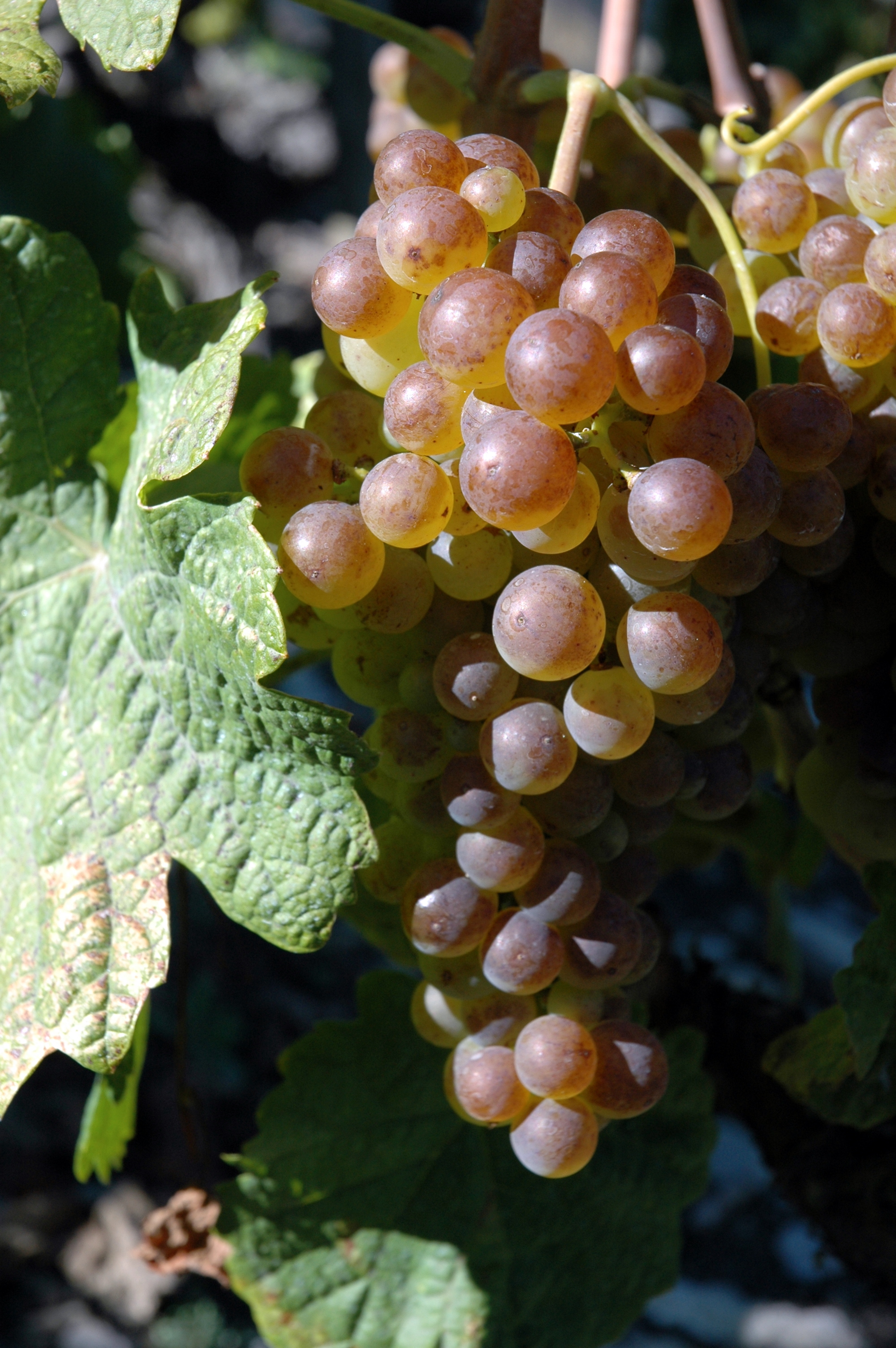 Chasselas in Wallis (Switzerland)